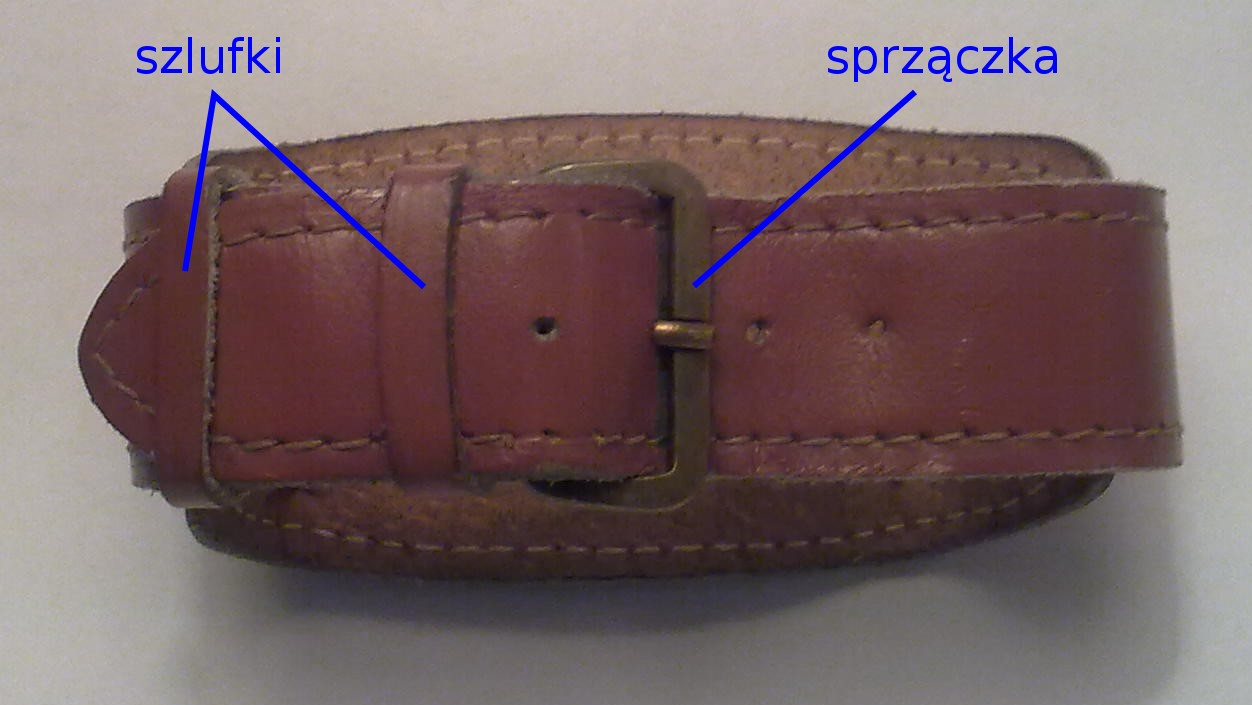 Leather watch belt